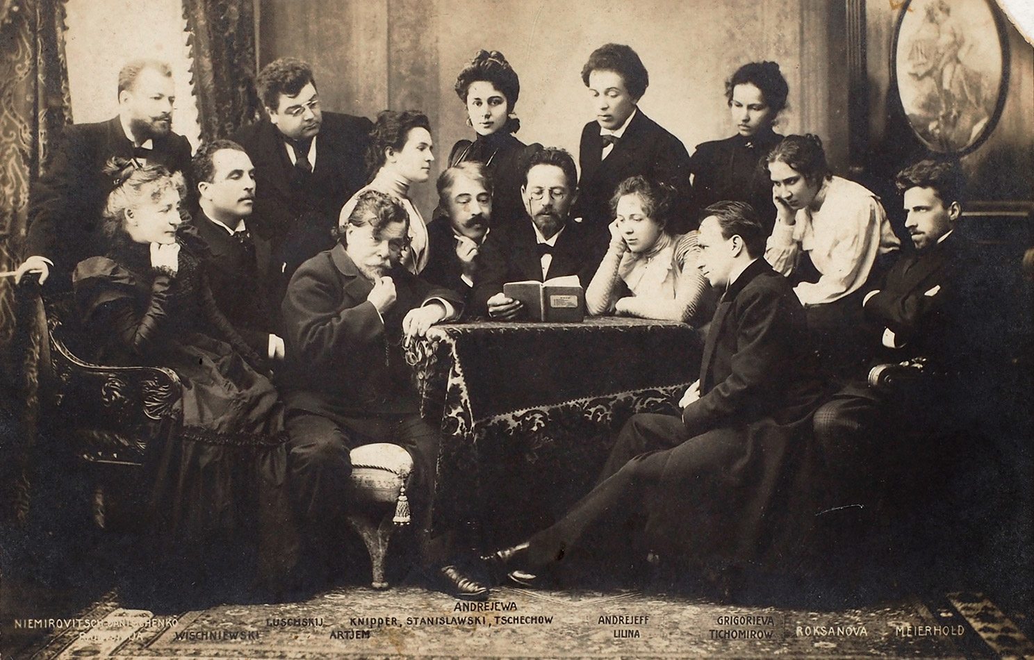 A posed photograph of Anton Chekhov reading his play The Seagull to the Moscow Art Theatre company. On Chekhov's right, Konstantin Stanislavski is sat, and next to him, Olga Knipper. Stanislavski's wife, Maria Liliana, is seated to Chekhov's left. On the far right side of the photograph, Vsevolod Meyerhold is sat. Vladimir Nemirovich-Danchenko stands in the far left side of the photograph.